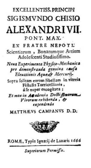 Title page